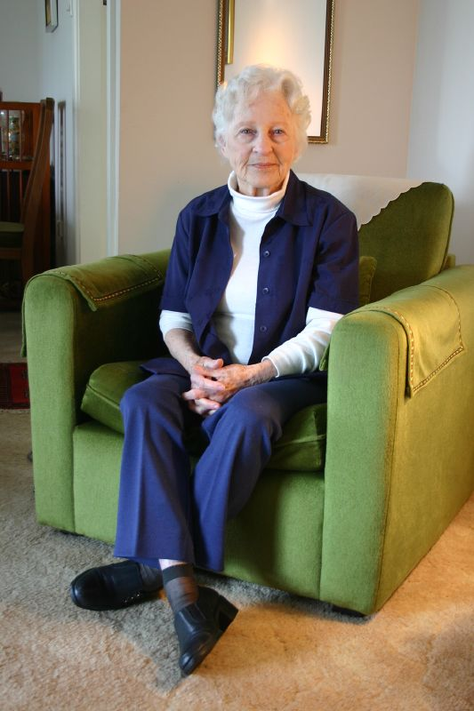 Jean Burns, Australia's first female parachutist to jump from an aeroplane on Australian soil and Australia's youngest female pilot in 1937. Photo taken in Sydney on the 22nd July 2006.